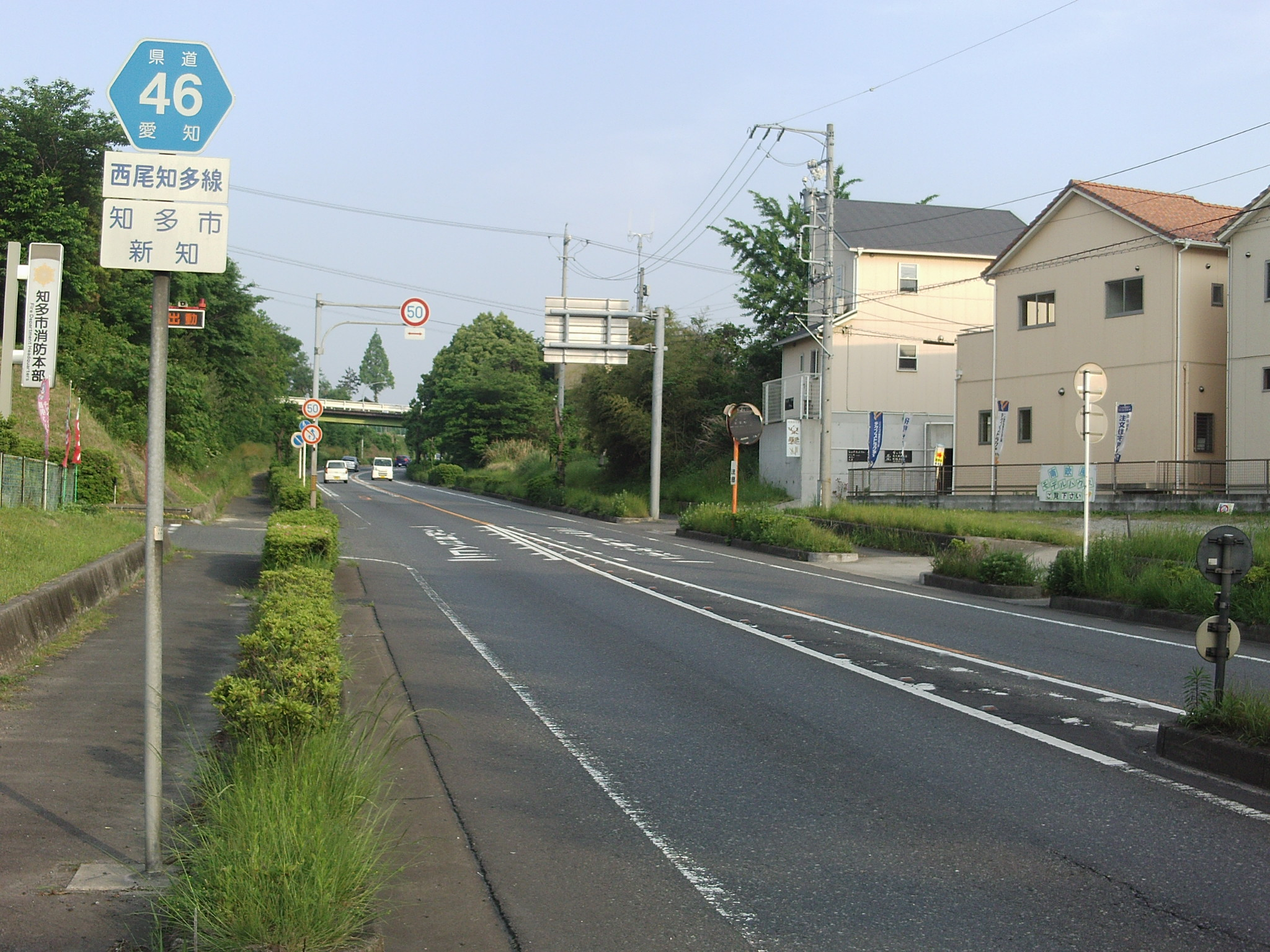 Aichi prefectural road No.46 in Shinchi, Chita, Aichi.